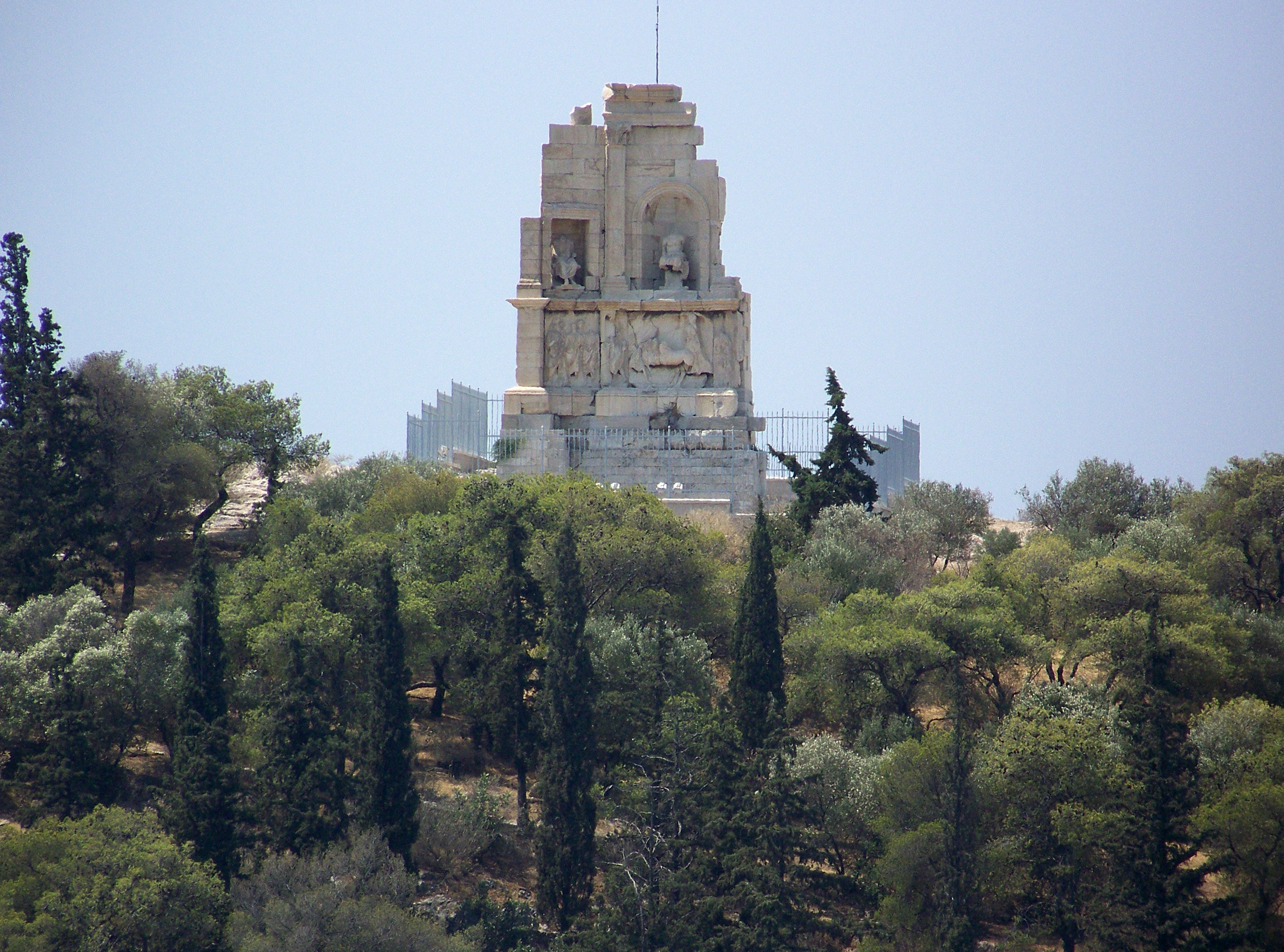 Philopappos monument in Athens, Greece.